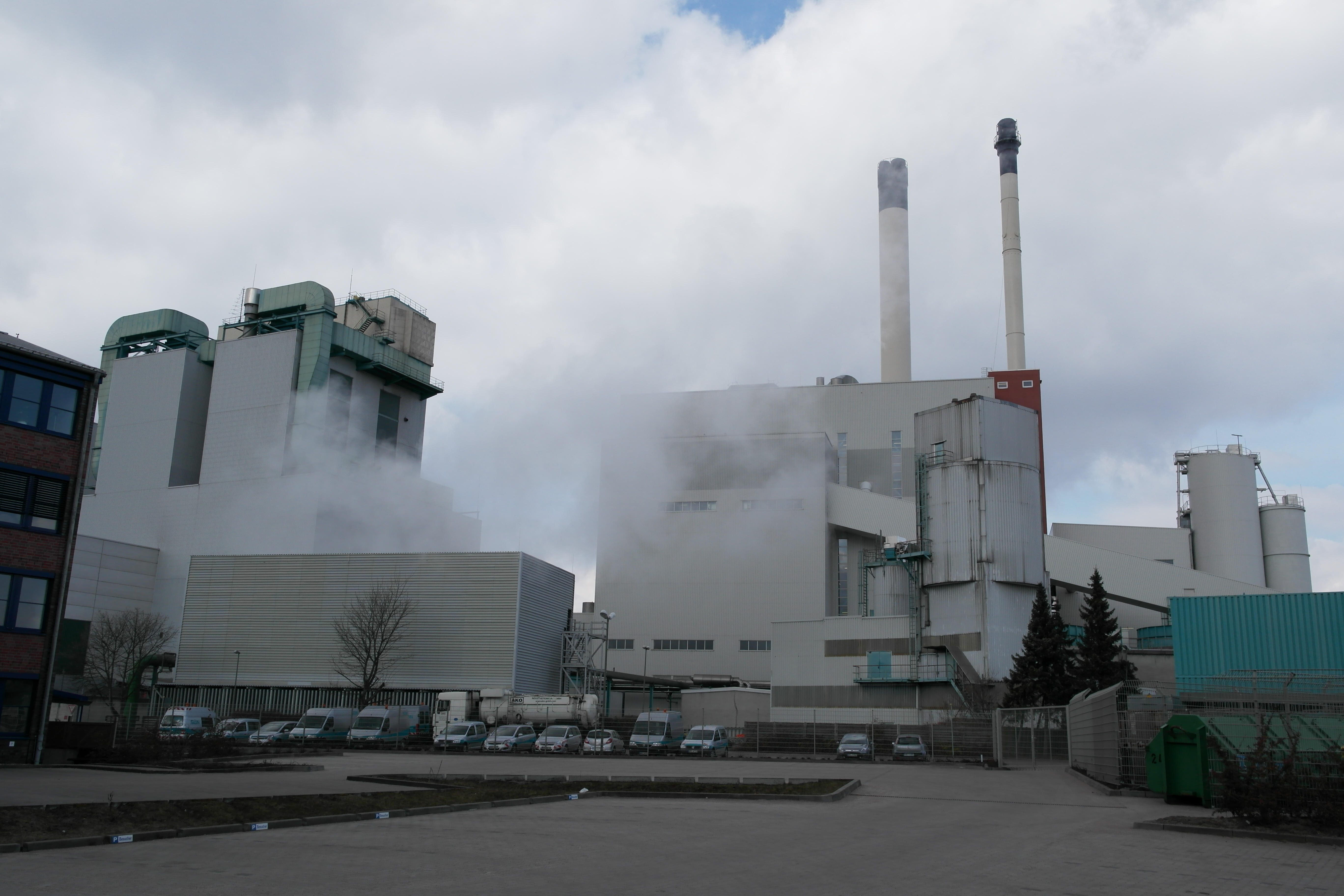 Waste incinerating plant (waste-to-energy facility) of Stadtwerke Neumünster in the Bismarckstraße